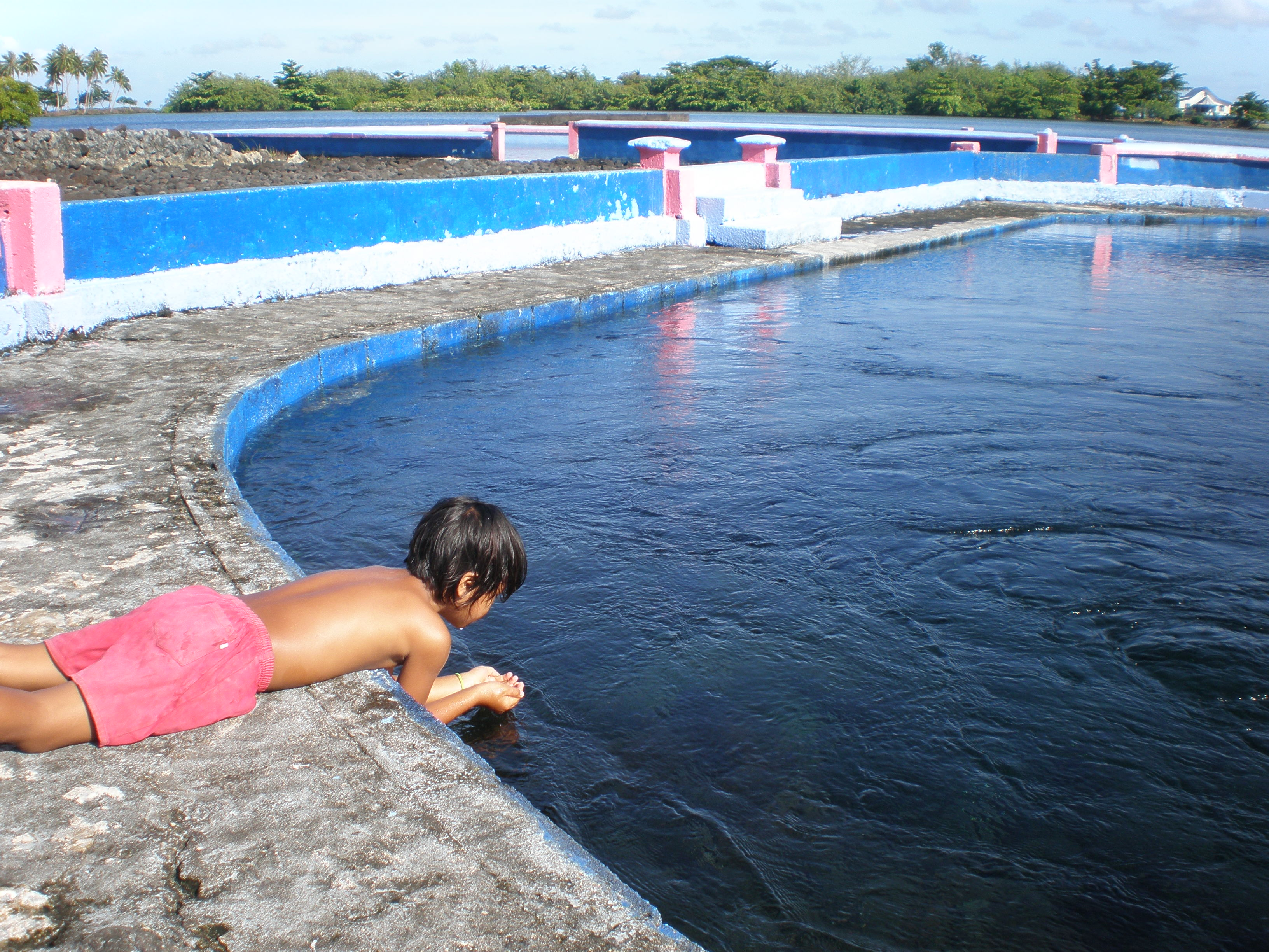 Child taking a drink from the fresh spring pool at Mata o le Alelo pool in Matavai village. Mata o le Alelo is known in Samoa as the pool from the 'Sina and the Eel' legend in Samoan mythology.